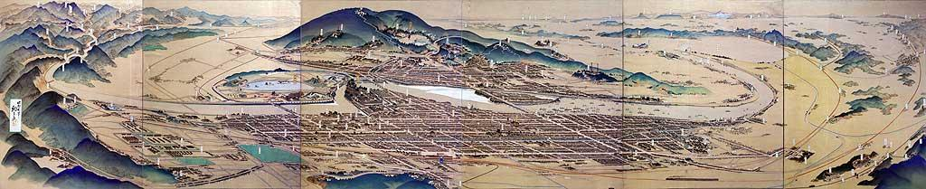 "Okayama Shigai Chokanzu" drawn by Hatsusaburo Yoshida (1932).